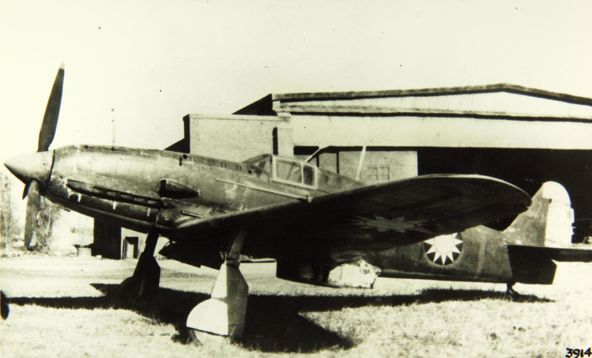 Kawasaki Ki-61 being used by the Chinese Nationalist Air Force.